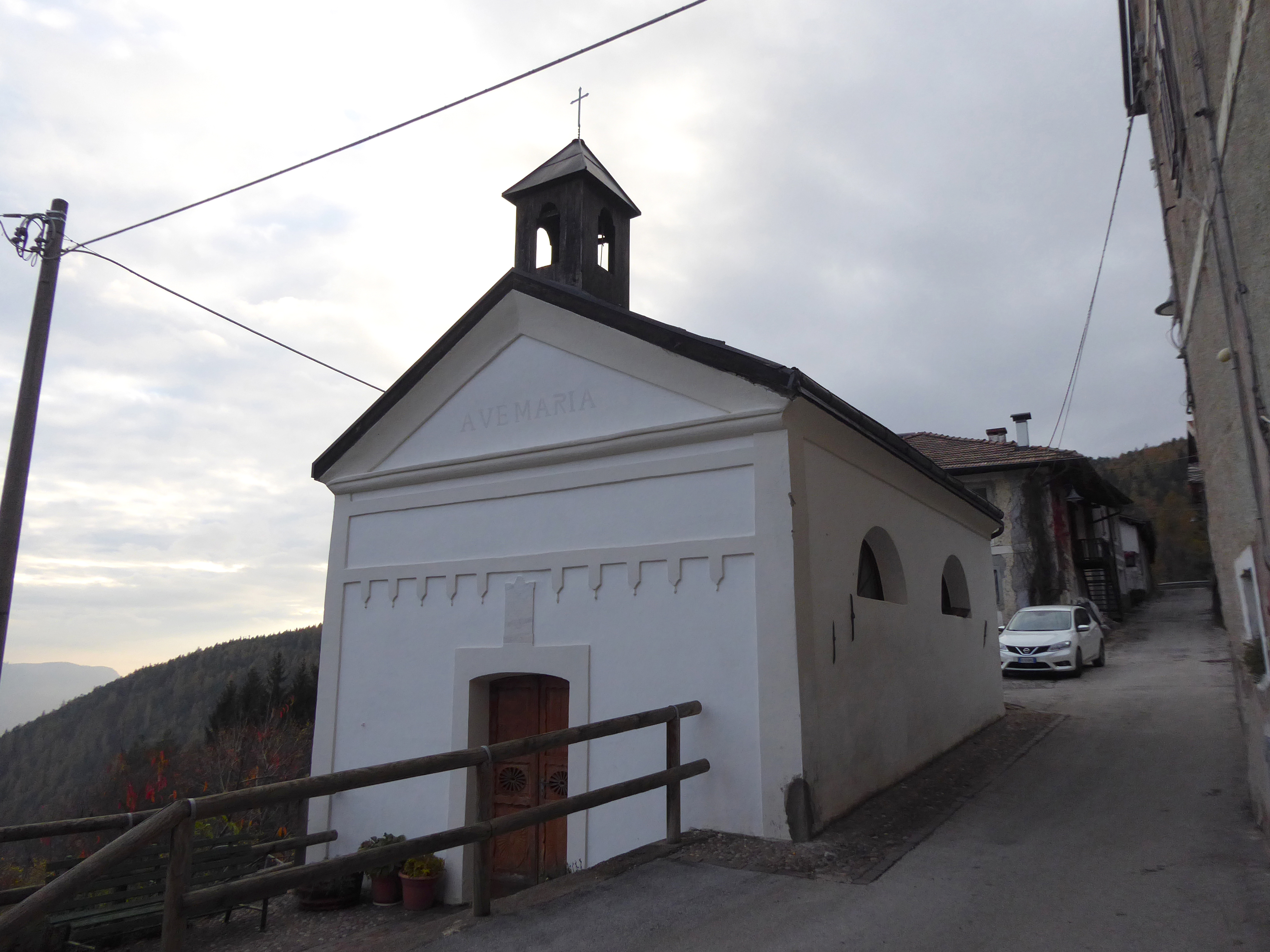 Maso Giovanni (Masi di Grumes, Altavalle, Trentino) - Church of Our Lady of Caravaggio